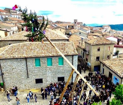 alessandria del carretto